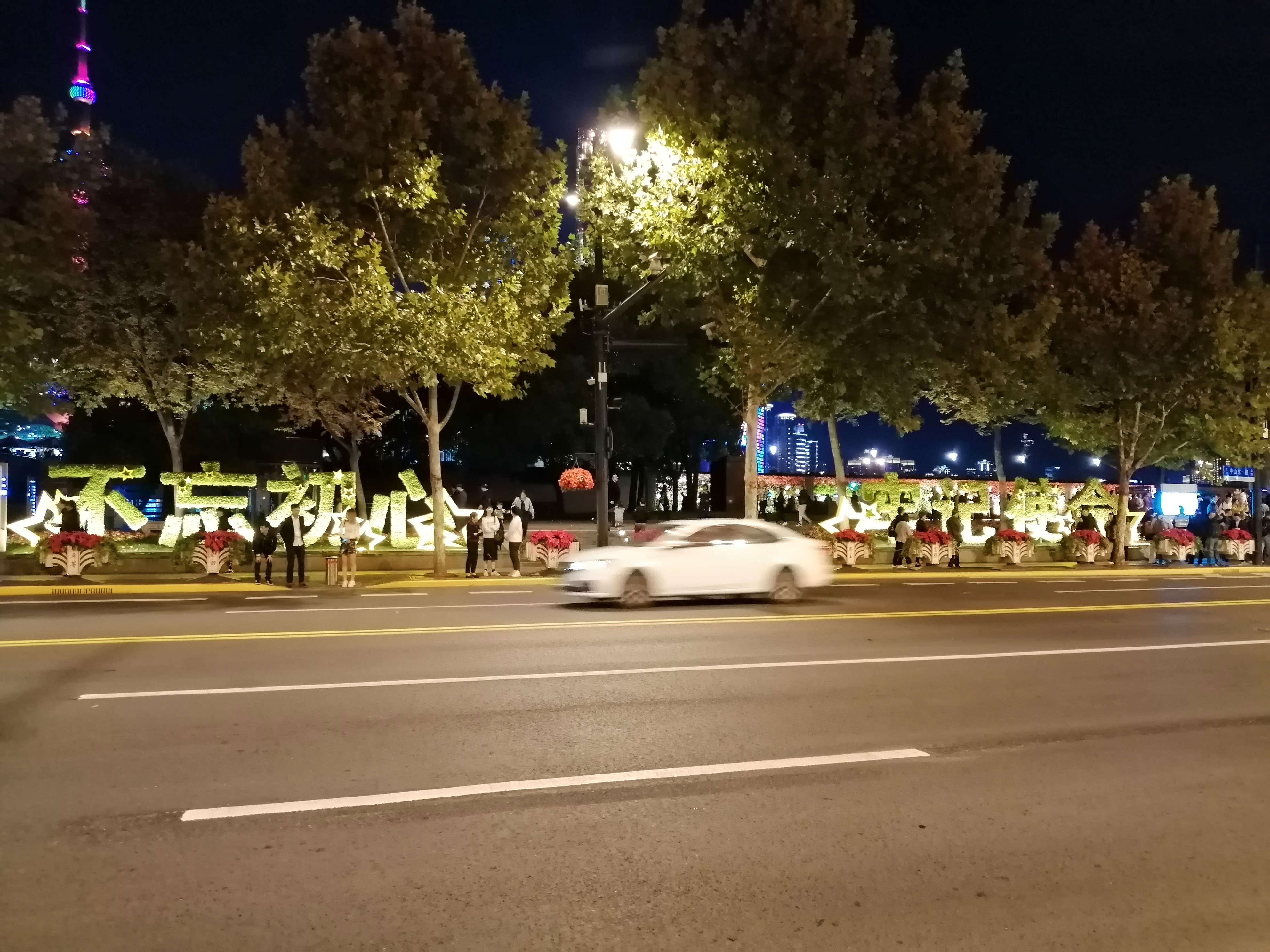 The famous political slogan in China, which originated by Xi Jinping.